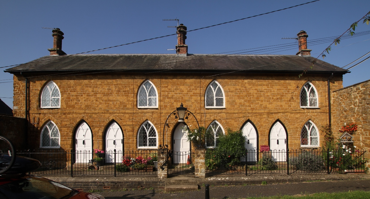 Terrace of four almshouses in Church Street, Deddington, Oxfordshire, seen from the east